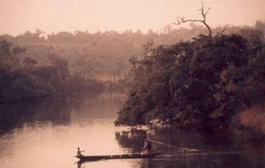 Water transport on River Bagoué, Côte d'Ivoire.